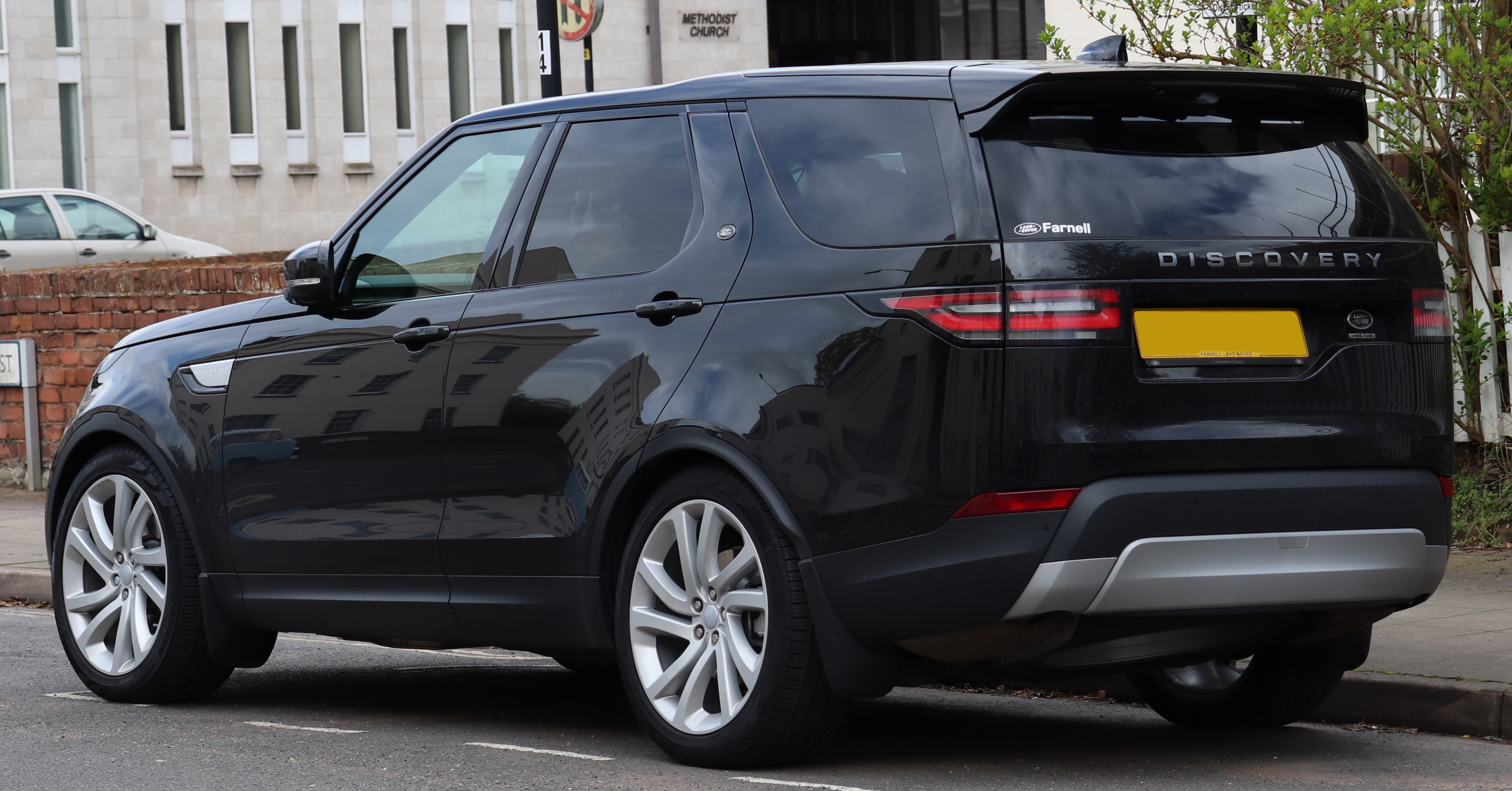 2017 Land Rover Discovery HSE TD6 Automatic 3.0 Rear Taken in Leamington Spa